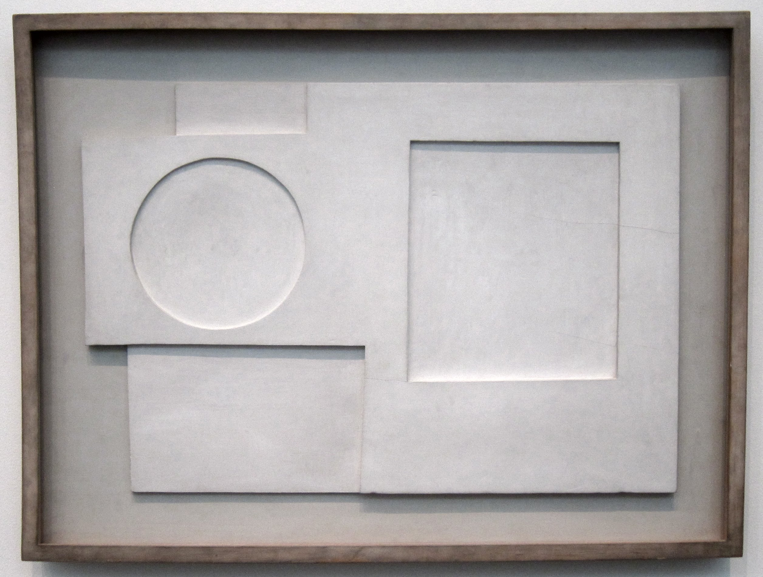 1934 (relief) oil paint on wood sculpture by Ben Nicholson, 1934, Tate Modern